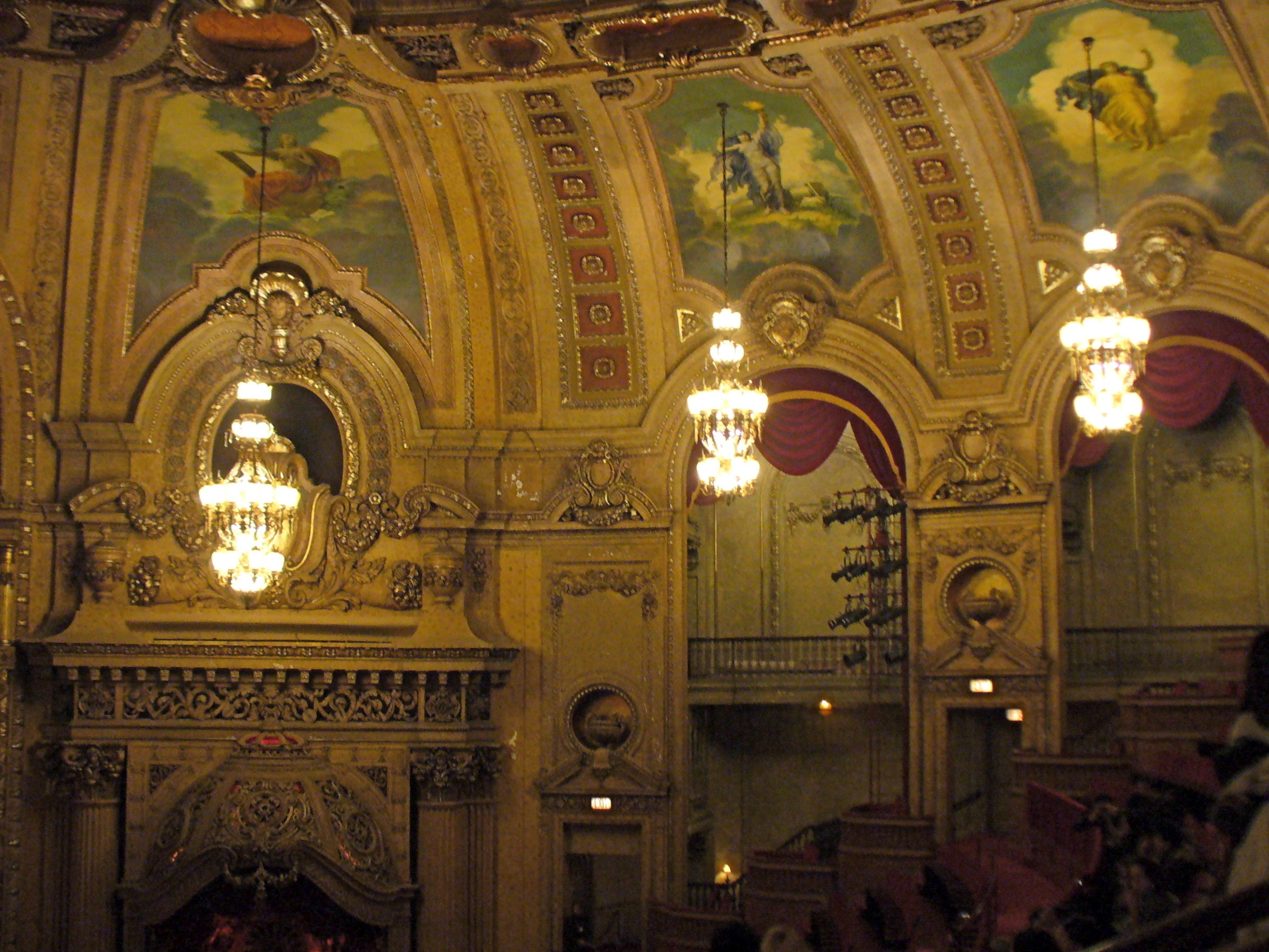 The ornate interior of the Chicago Theater features murals by Louis Grell, chandeliers, and gilded decorations.